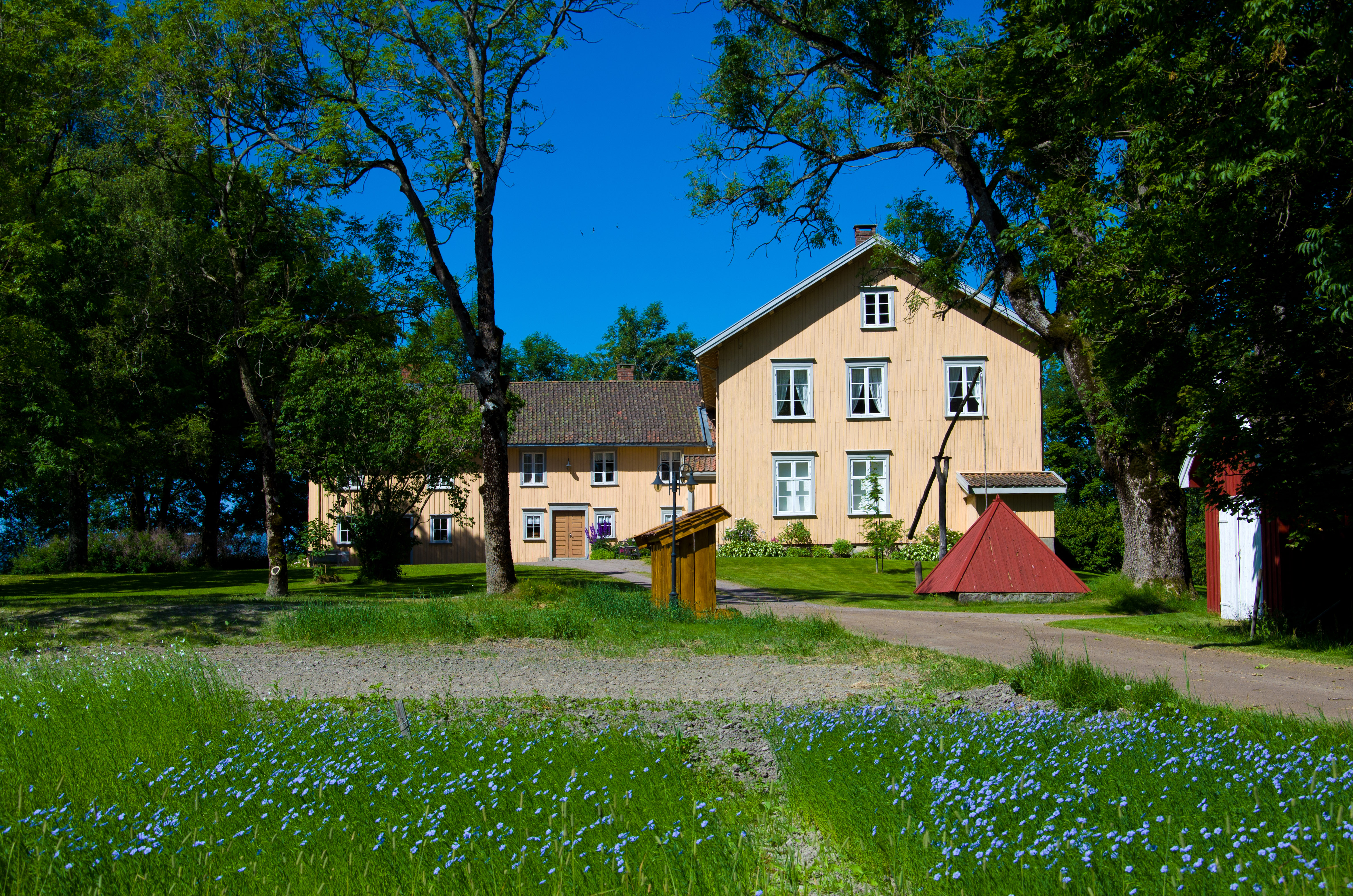 Vaale vicarage in Re, Vestfold, Norway